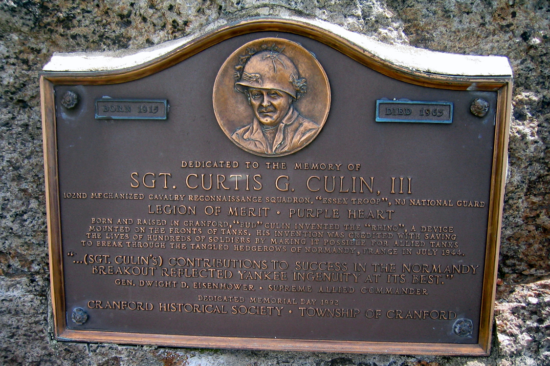 Memorial monument to U.S. Army Sgt. Curtis G. Culin III in his hometown of Cranford, New Jersey.